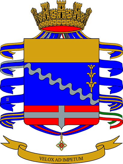 Coat of Arms of the 8° Bersaglieri Regiment; Italian Army.